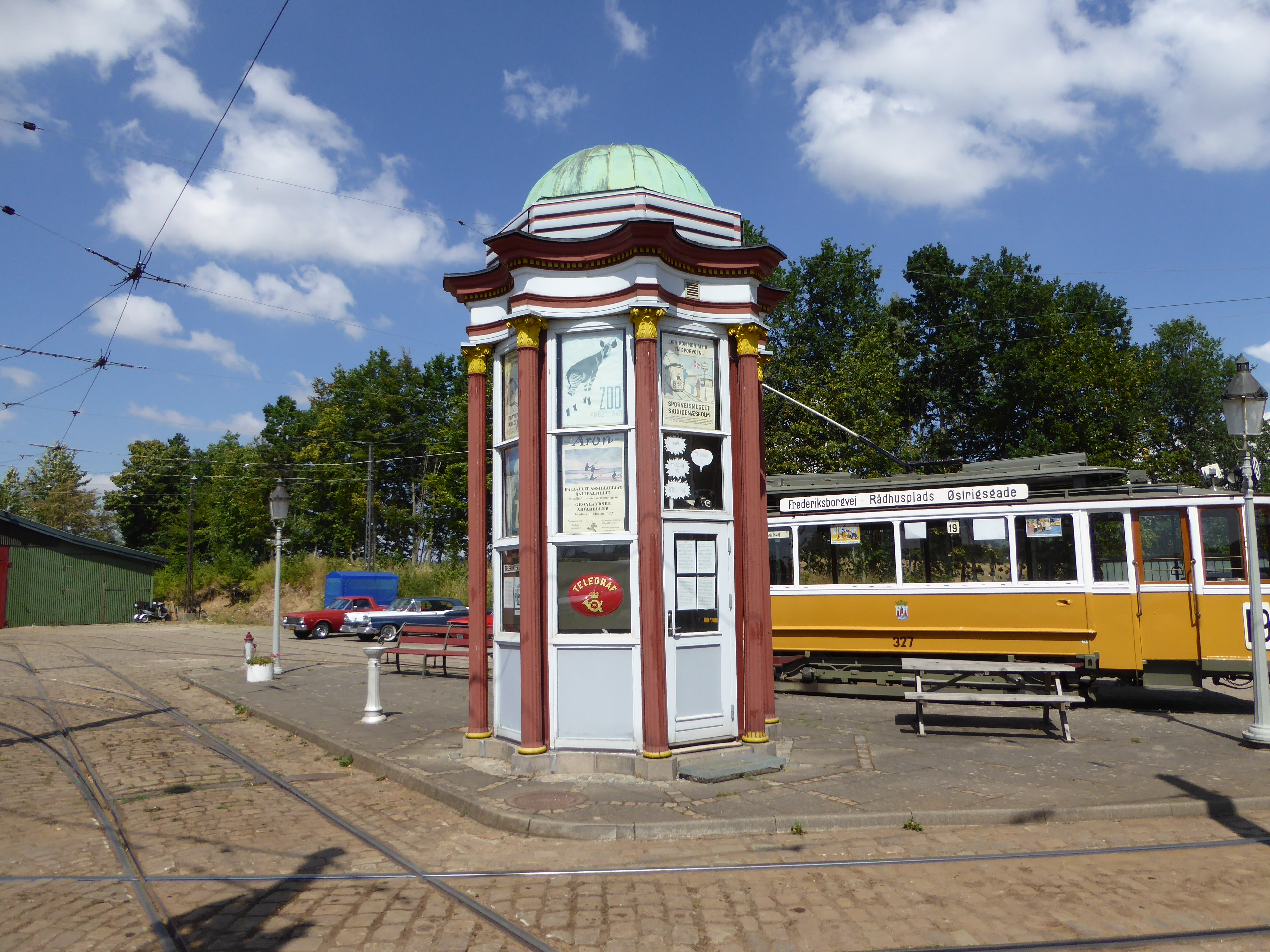 Telephone kiosk from Frederiksberg in Copenhagen at Sporvejsmuseet Skjoldenæsholm in Denmark. The telephone kiosk was originally placed at the corner of Kingosgade and Frederiksberg Allé in 1916. It was taken down in 1973 and rebuild at Sporvejsmuseet in 1985-1993. The tram behind is KS 327 of Copenhagen from 1912.